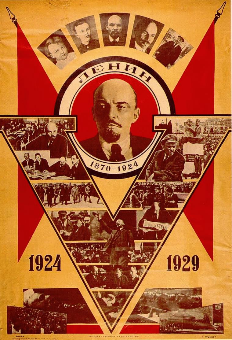 A Soviet propaganda poster featuring Vladimir Lenin (1870-1924), published on the fifth anniversary of his death in 1929.